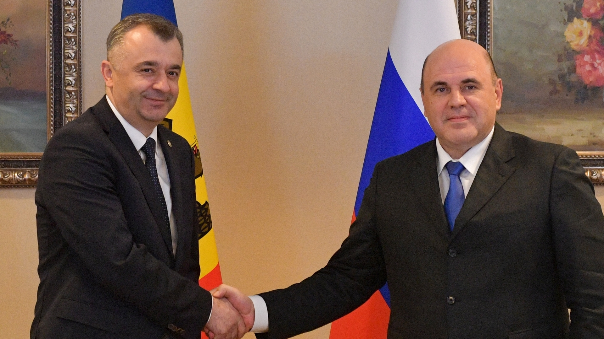 Mikhail Mishustin and Ion Chicu